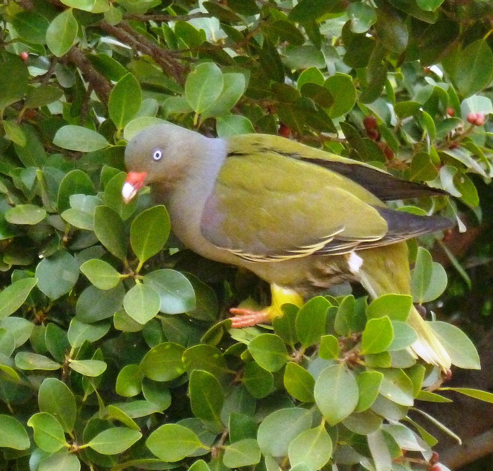 Green Pigeon in a Chinese banyan tree. One of about six that visit the tree to feed on ripening figs.